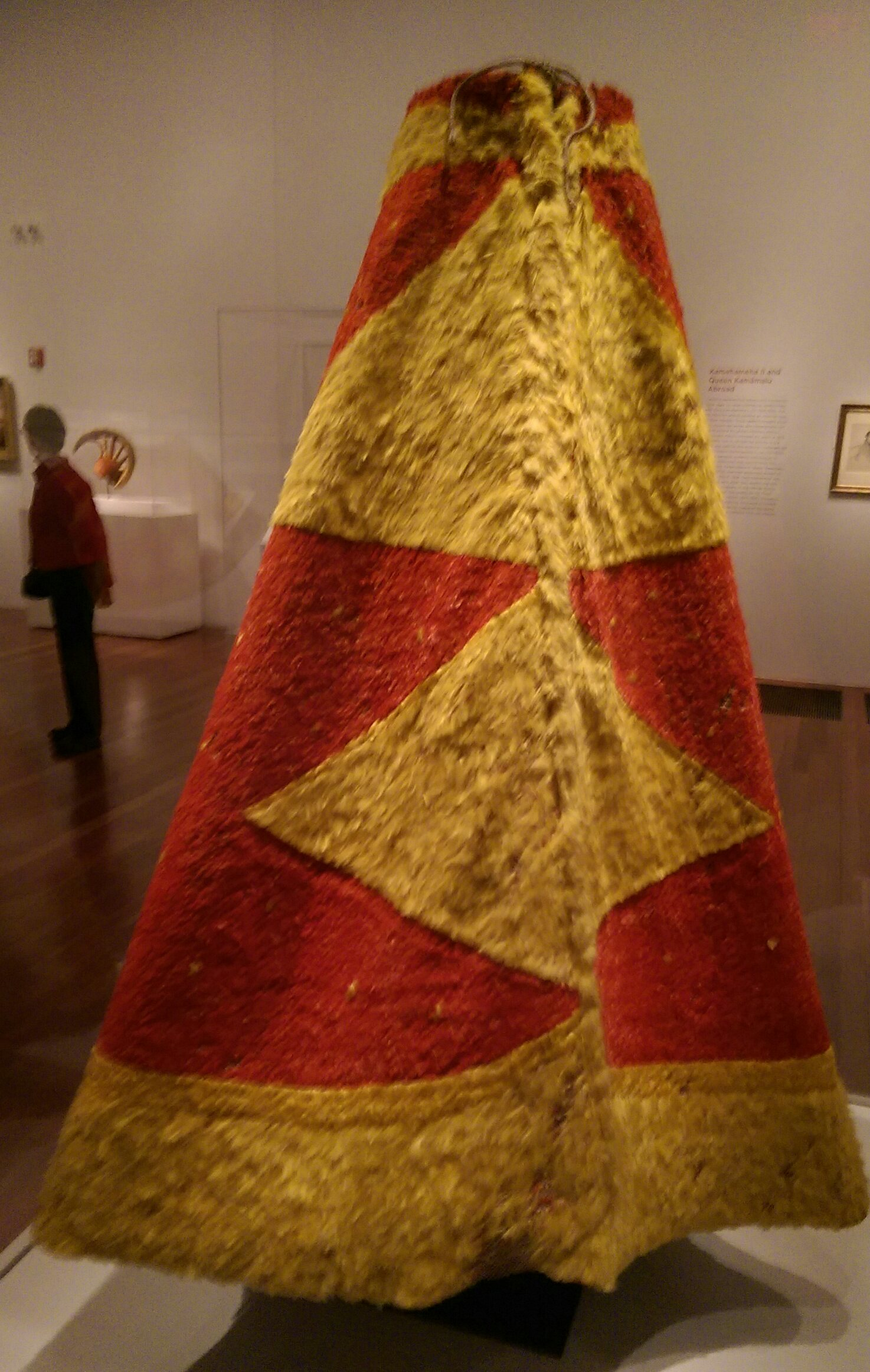 A feathered cape associated with Hawaiian monarch Kalaniopuu (1729 - 1782), on display at the de Young Museum in San Francisco. Photo by Jim Heaphy.